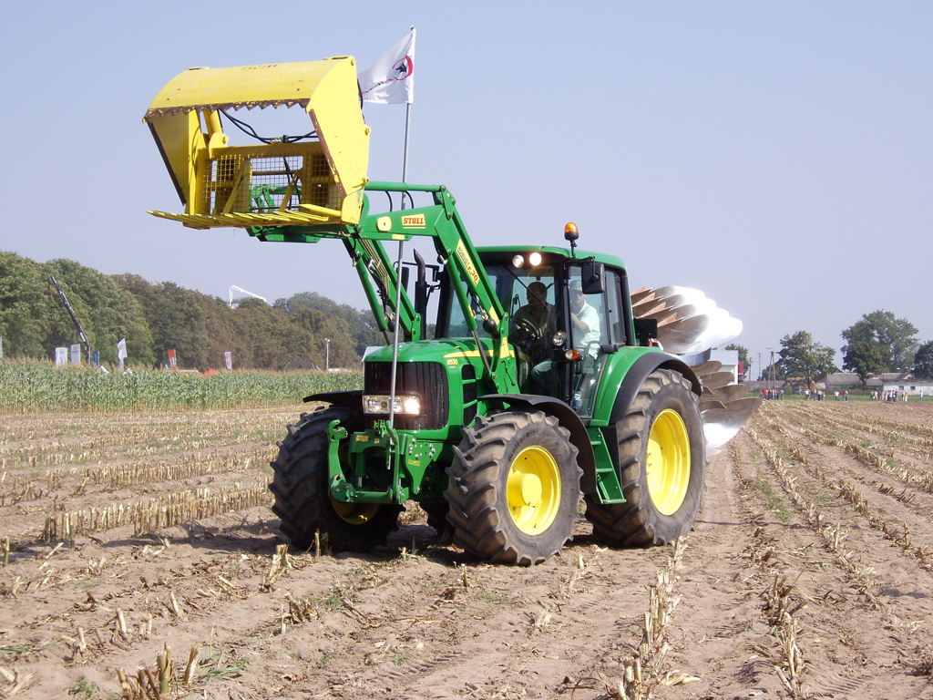 John Deere 6530 Premium tractor with frontloader Stoll and plough Kverneland